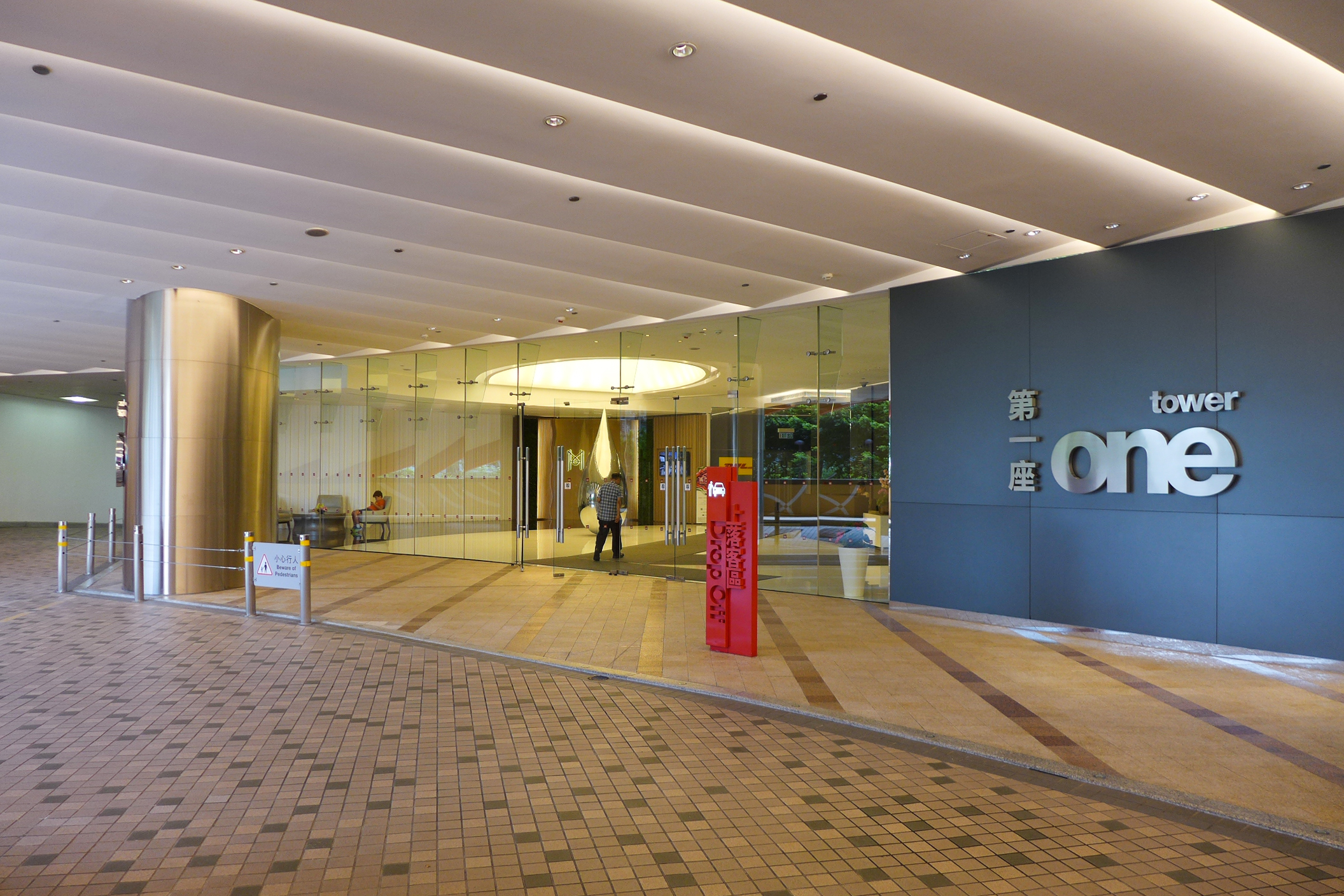 Enterprise Square Five Tower 1 Office Lobby